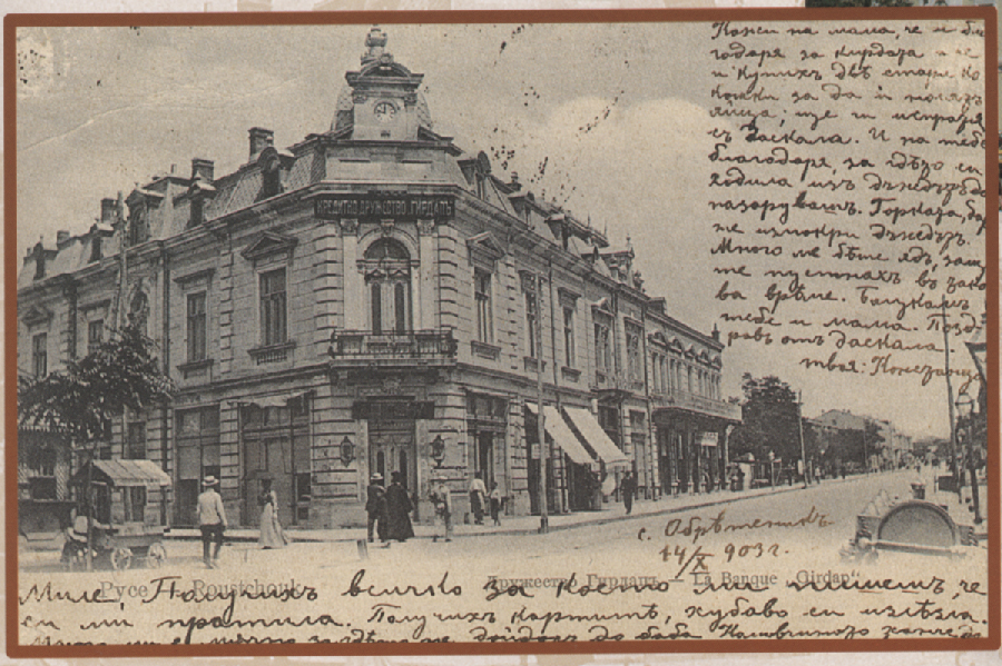 Headquarters of Girdap, the oldest privately-owned bank in Bulgaria, in Ruse.